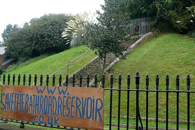 Bath Road reservoir site This is the embankment of one of the underground reservoirs. They are no longer used, and there are plans for houses on the site, creating much controversy as there is a little nature colony grown up in there. The campaign to save the site is here